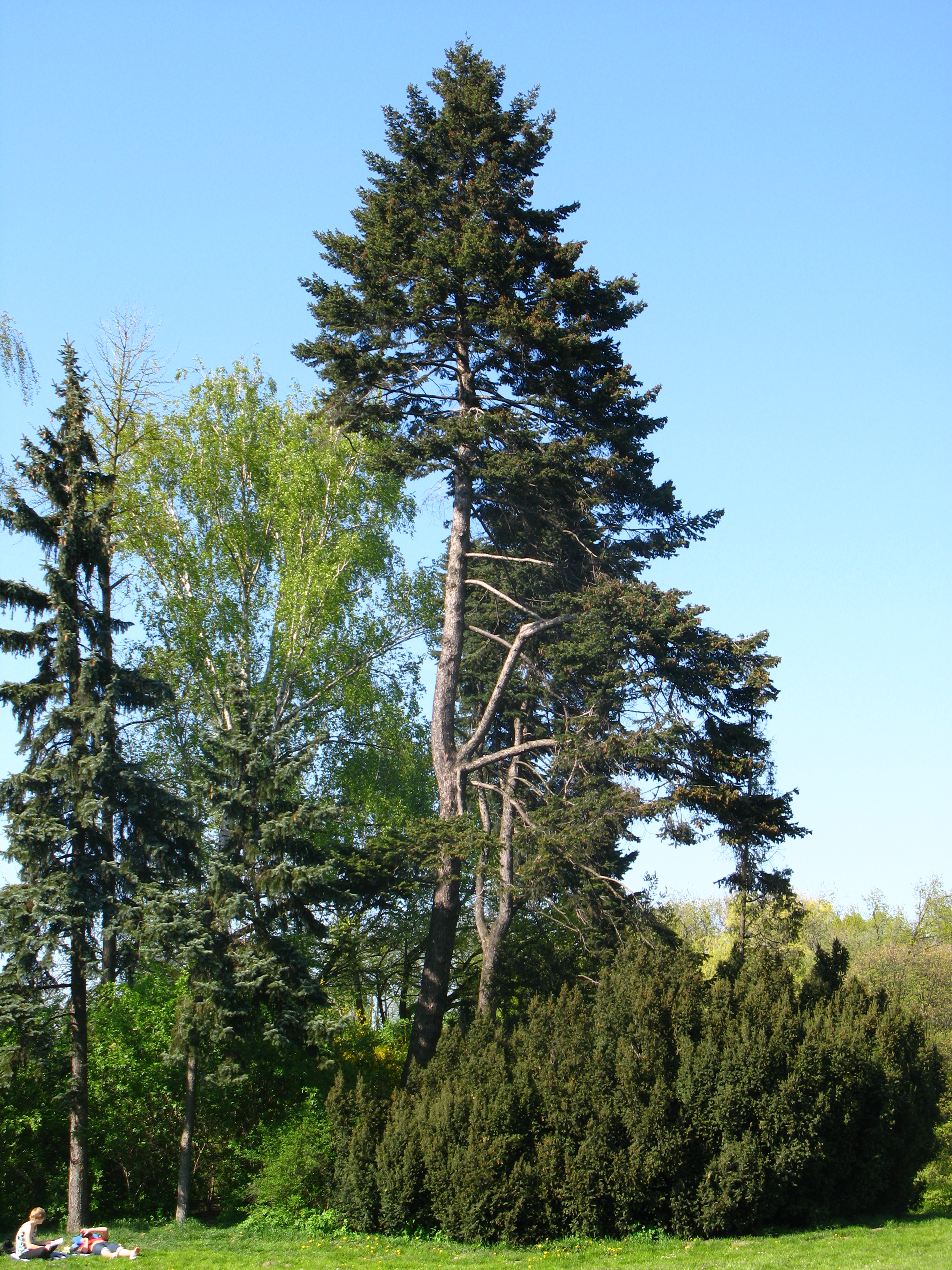 Douglas-fir in Park Skaryszewski